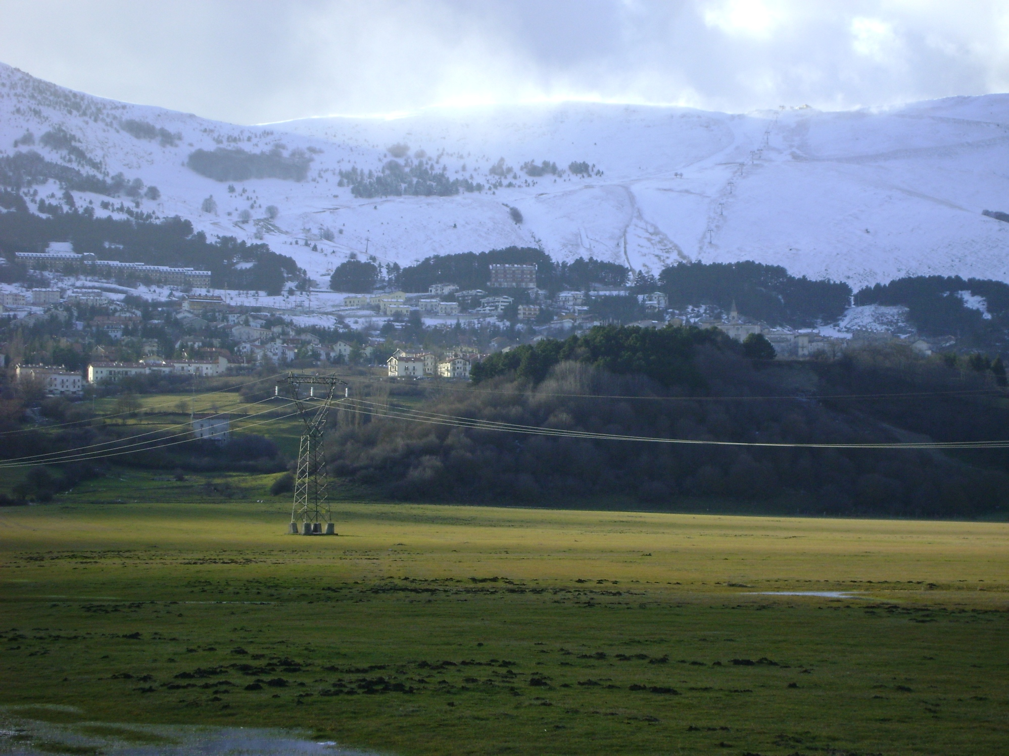 View of Pescocostanzo, province of L'Aquila, Abruzzo